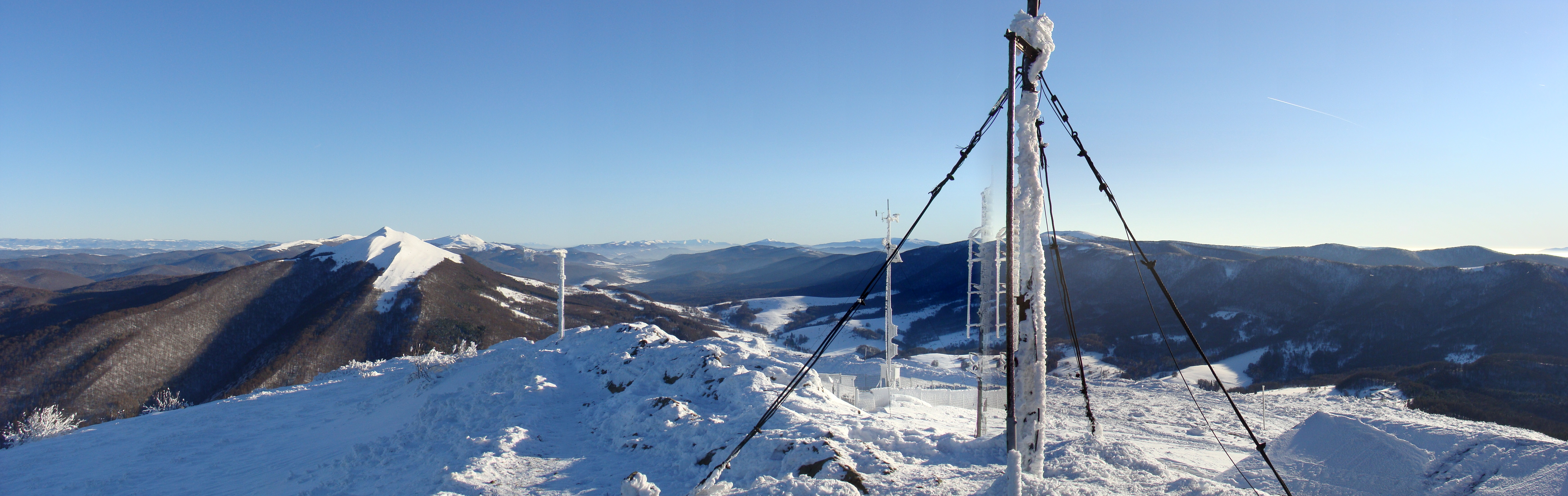 A view from Połonina Wetlińska peak towards Połonina Caryńska peak and Ustrzyki Górne